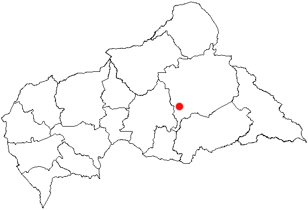 Bria, Central African Republic Location Map; created with the GIMP. Made by User:Acntx.